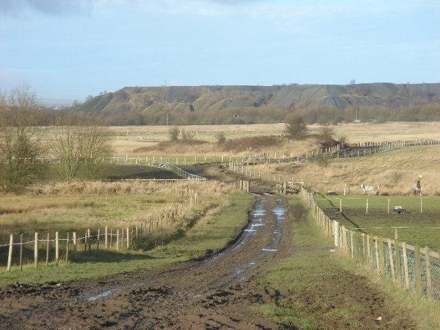 Pit Spoil Heaps at Over Hulton. Photo taken from Cleworth Hall farm, Tyldesley. The railway line between Wigan and Manchester runs from left to right between the fields and the pit heaps.